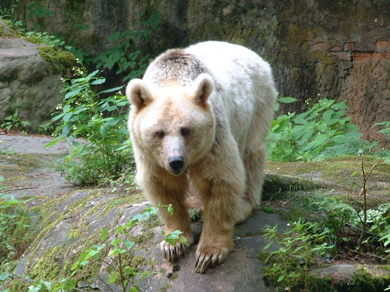 Syrian Brown Bear in Tiergarten Nürnberg, Nuremberg, Germany.